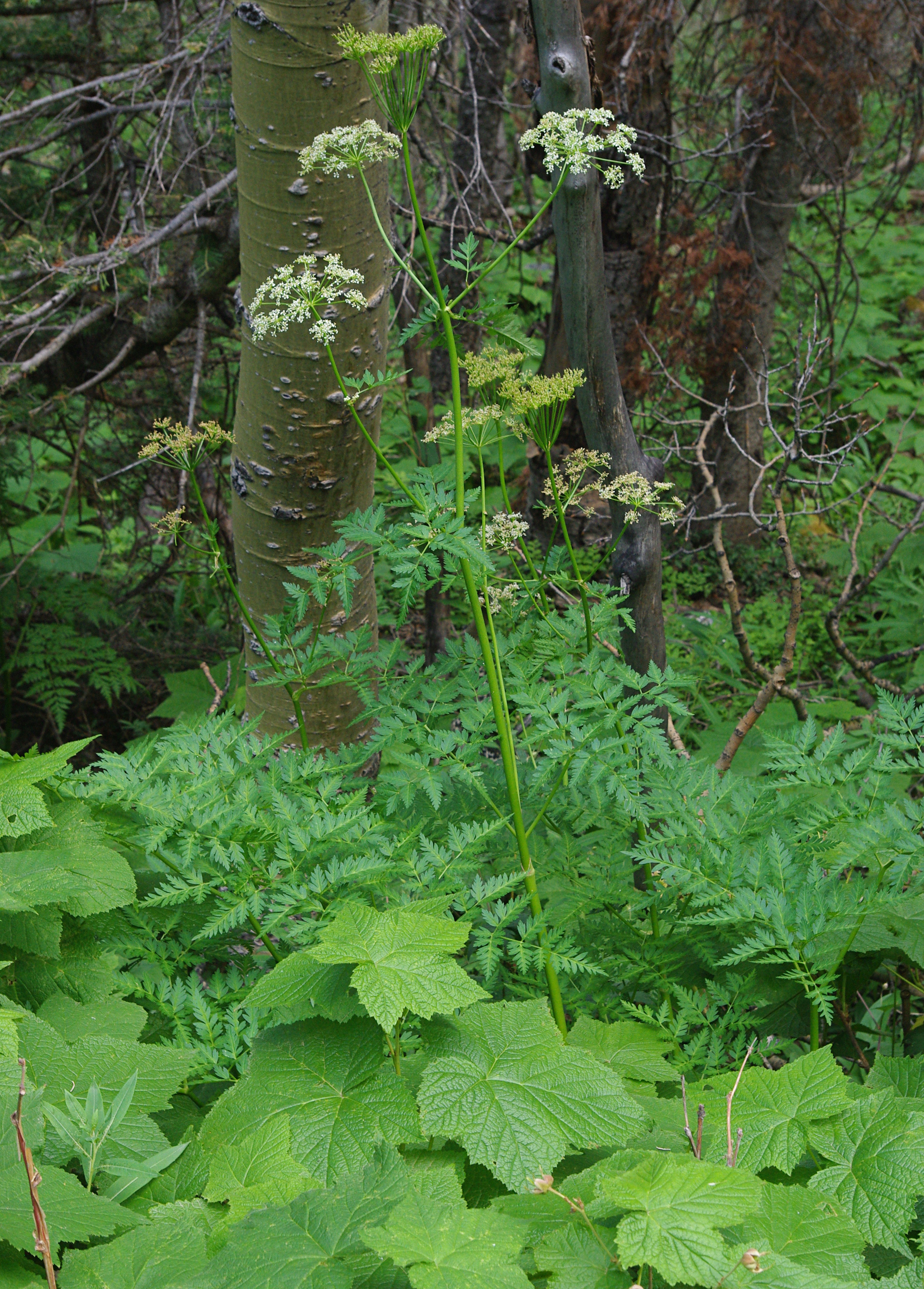 Plant of Ligusticum porteri, Oshá or Porter's Lovage, San Cristobal Canyon, Columbine-Hondo Wilderness Study area, Taos Co., New Mexico. The trunk behind it is a Quaking Aspen, Populus tremuloides. The plant in front with big five-pointed leaves is Rubus parviflorus.